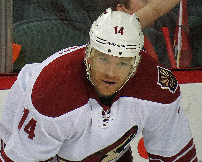 Halpern with the Coyotes in the 2013-14 season.